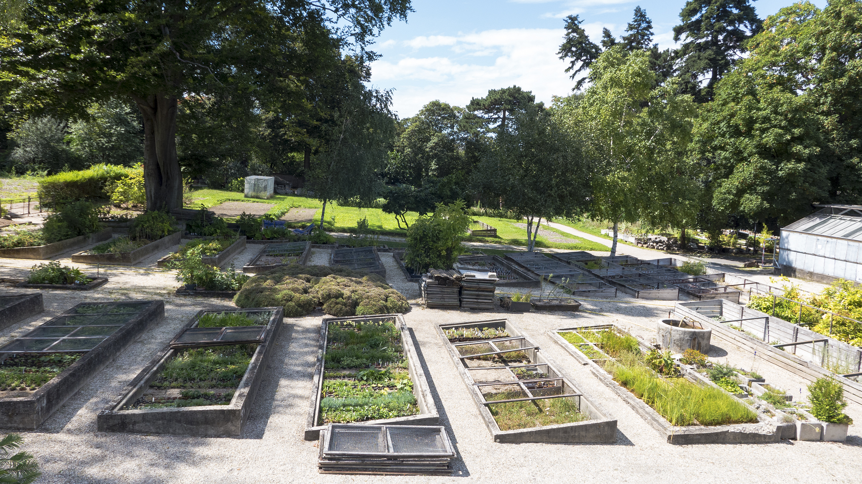 Botanical Garden of the University of Vienna in Vienna 3